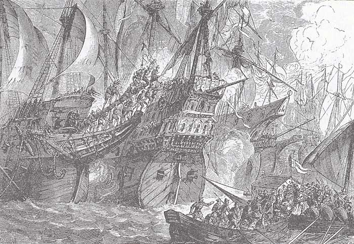 Battle of of Reimerswaal 1574